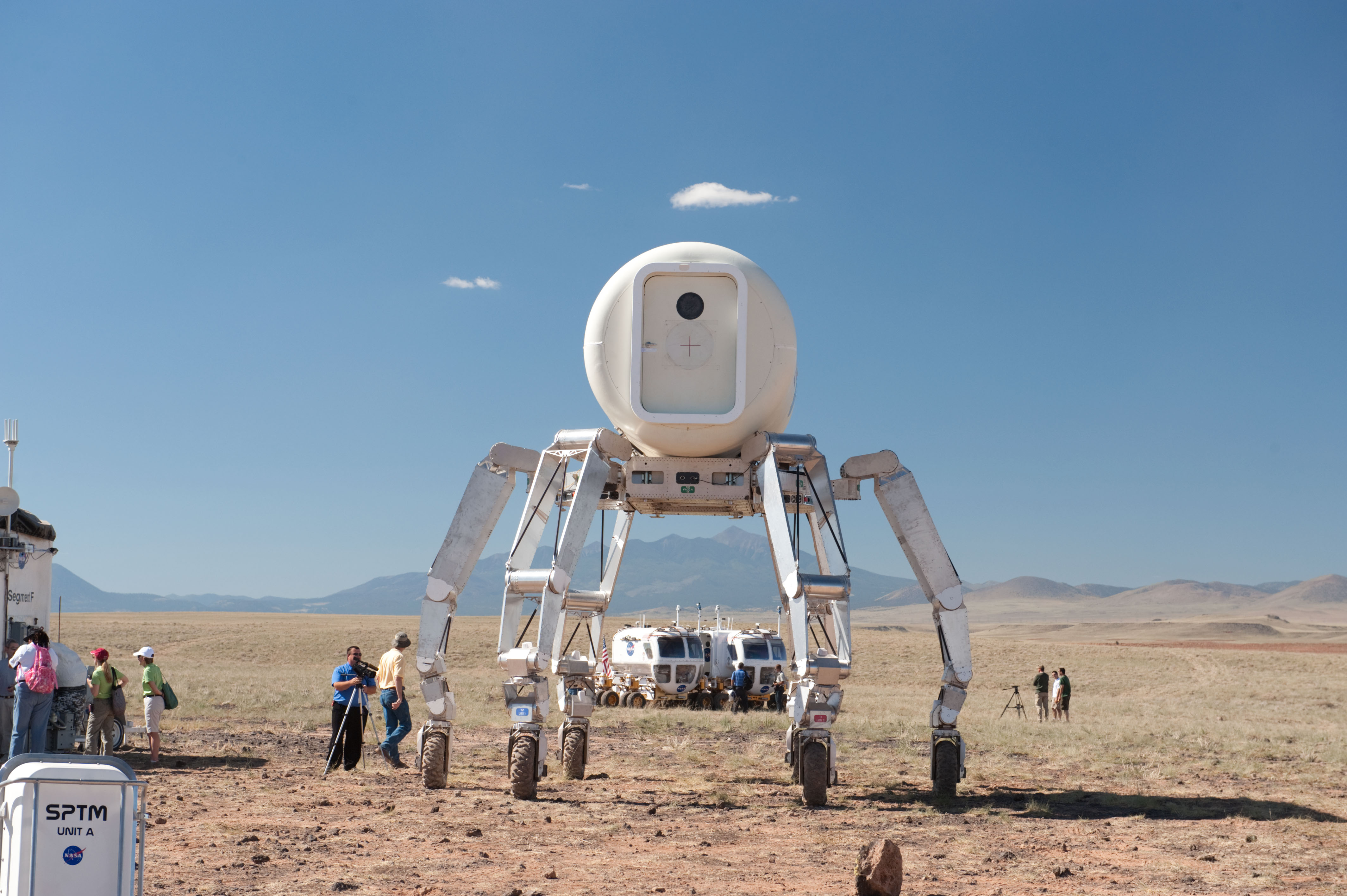 JSC2010-E-169759 - NASA's tri-ATHLETE -- or All-Terrain Hex-Limbed Extra-Terrestrial Explorer -- demonstrates its heavy lifting power, moving mock habitat across the Arizona desert during the 2010 Desert RATS -- or Research and Technology Studies -- field tests. In the background, the two Space Exploration Vehicle rovers are docked together. Photo credit: NASA or National Aeronautics and Space Administration